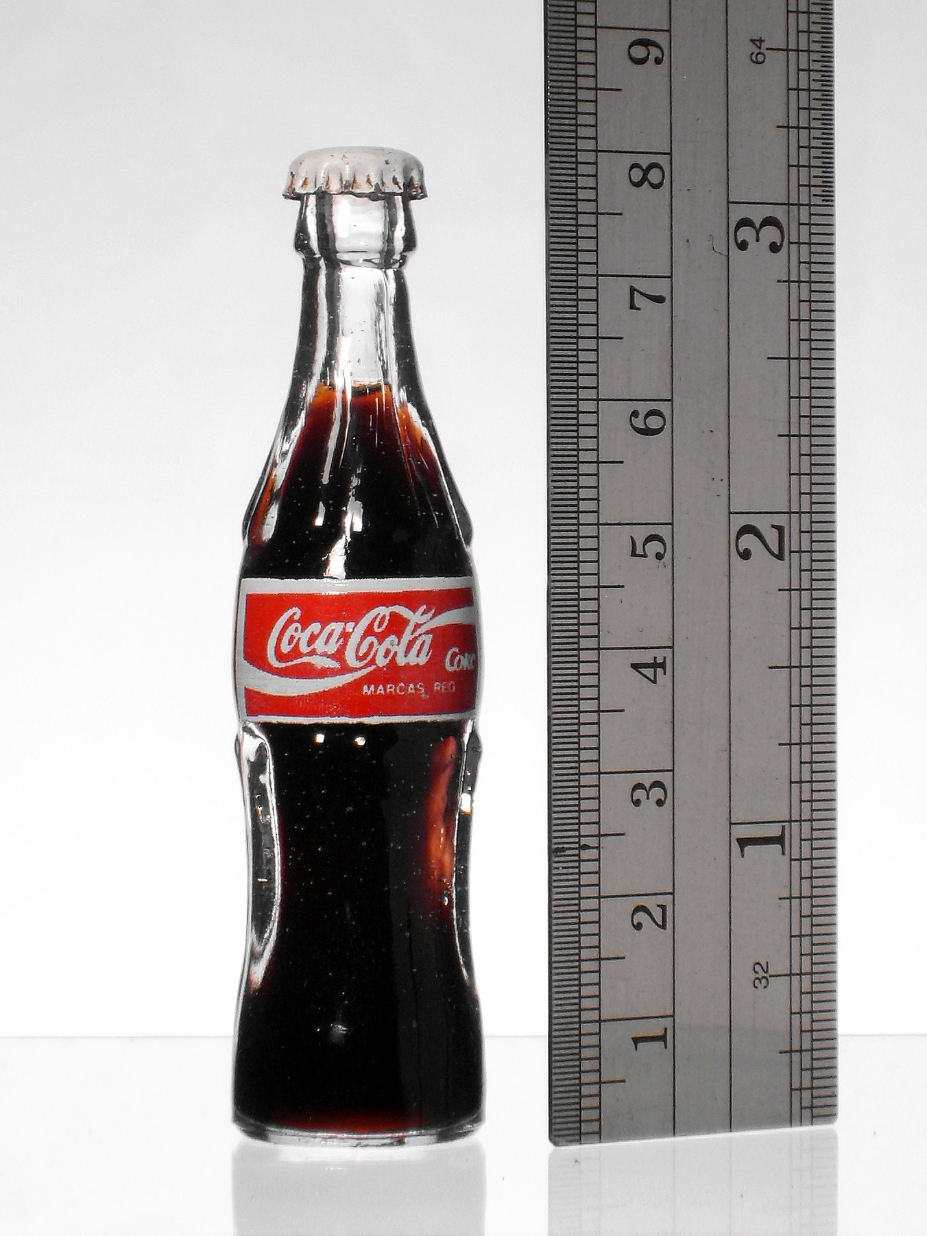 An 8cm tall Coca-Cola bottle. Released in Chile as part of a promotion in the 1980's decade.